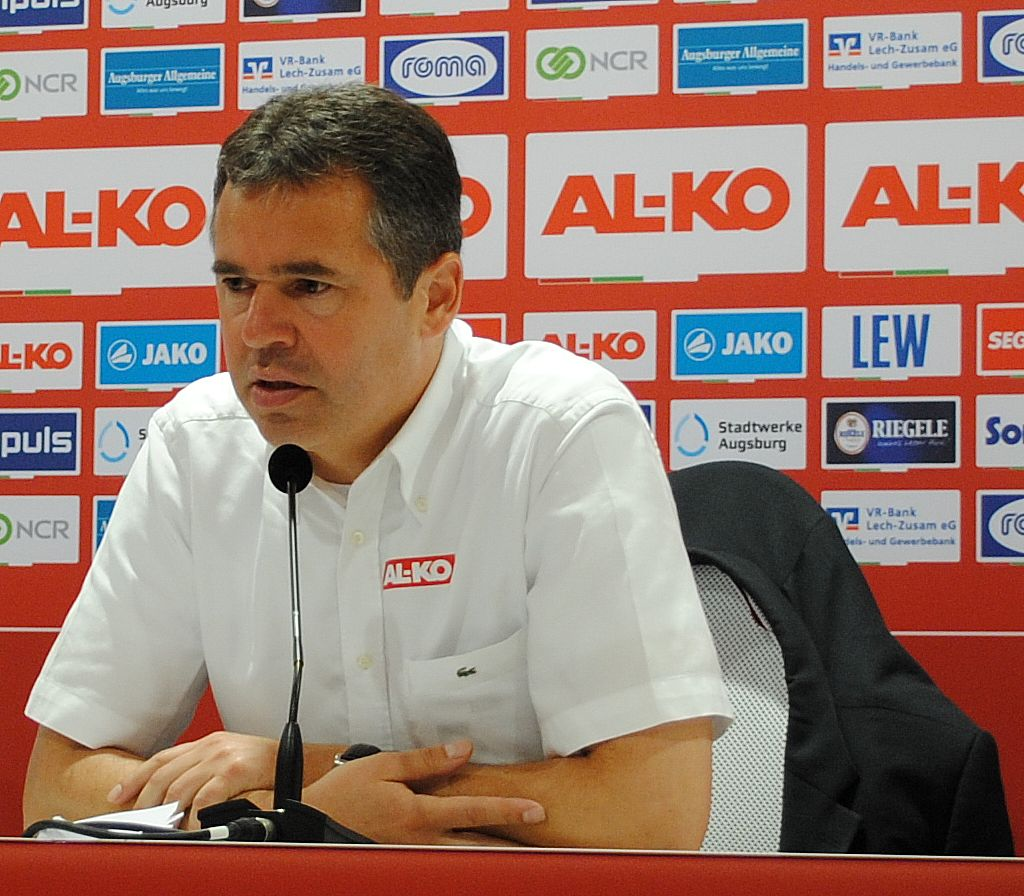 Andreas Rettig during press conference in August 2010